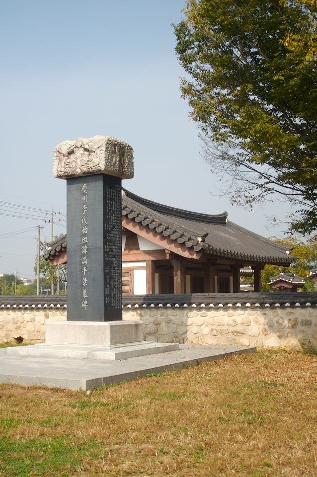 A memorial stele for Yi Alpyeong (李謁平), who founded a Template:Ri (Korean surname) clan. The main inscription reads Gyeongju Yissi Sijo hui Alpyeong Gyeongmobi (“the reverential stele for the Yi clan of Gyeongju's primogenitor, whose esteemed given name was Alpyeong”). It is at 507-7 in Dongcheon-dong, Gyeongju, North Gyeongsang Province and was built on 11 November, 1979 with a donation by the founder of Samsung Group, Lee Byung-chul. (Yi and Lee are variant romanizations.) There is an old village nearby called Pyoamjae. Hanja (Chinese characters) are still used for these historical records.